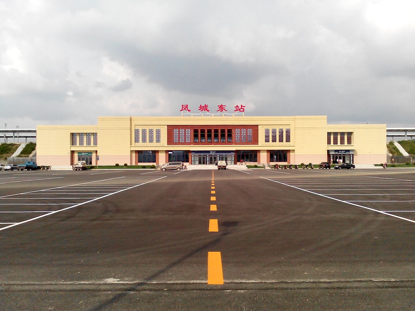 Fengcheng East Railway Station, Shenyang-Dandong Highspeed